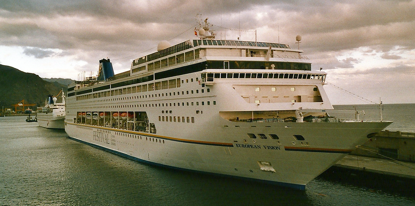 Cruise ships European Vision, and Carousel in Puerto de Santa Cruz de Tenerife